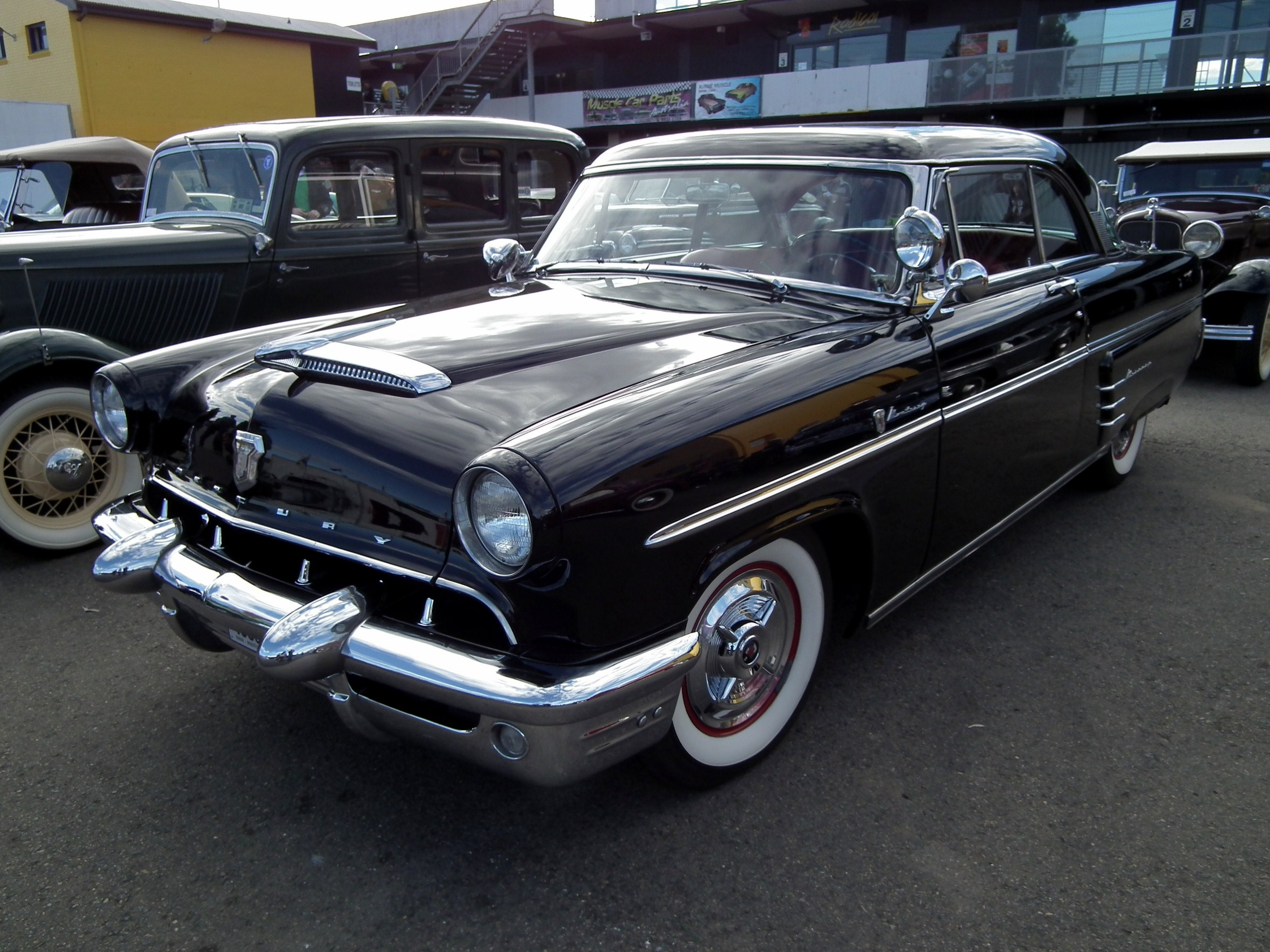 1953 Mercury Monterey coupe. Taken at the 2012 New South Wales All Ford Day, held at Sydney Motorsport Park (formerly Eastern Creek Raceway).